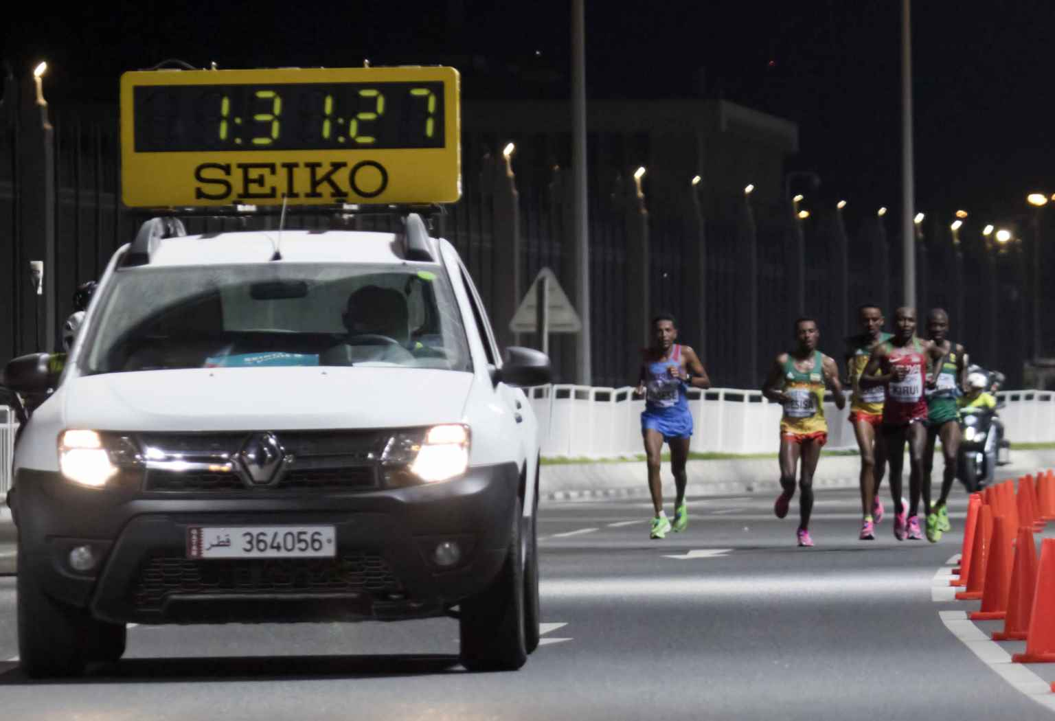 Men's marathon at the 2019 World Athletics Championships in Doha.